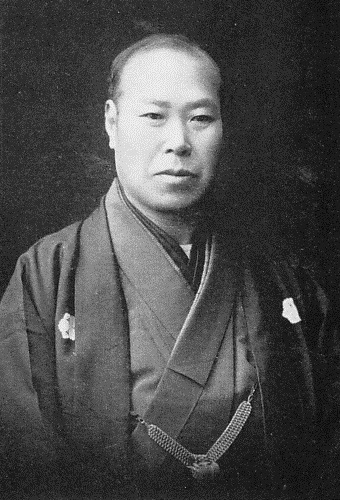 Takanori Kyogoku